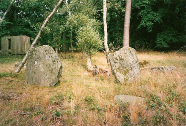 The Stones in the Bandirran Stone Circle Two of the Stones in the Circle.